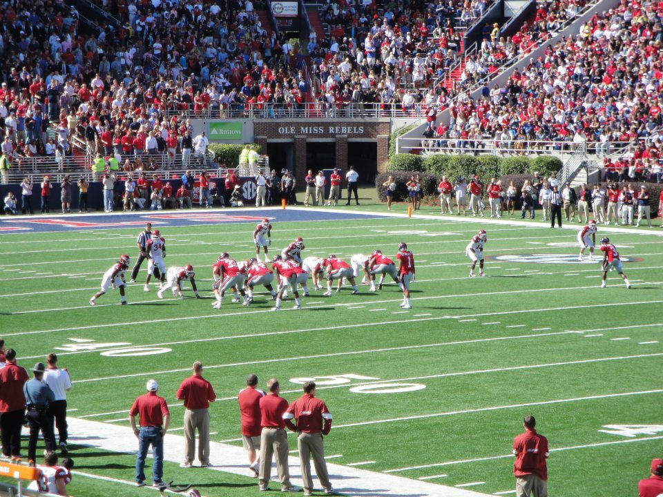 Ole Miss offense vs Arkansas defense in Vaught-Hemmingway Stadium